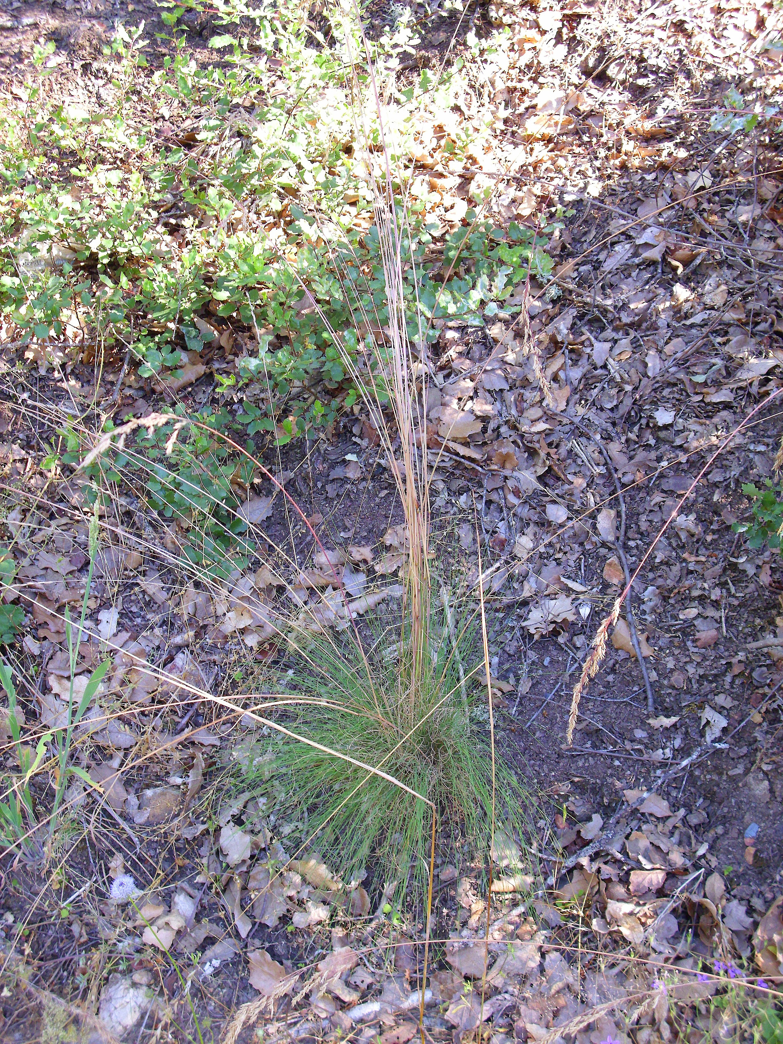 Festuca elegans habit, Valderrepisa Sierra Madrona, Spain